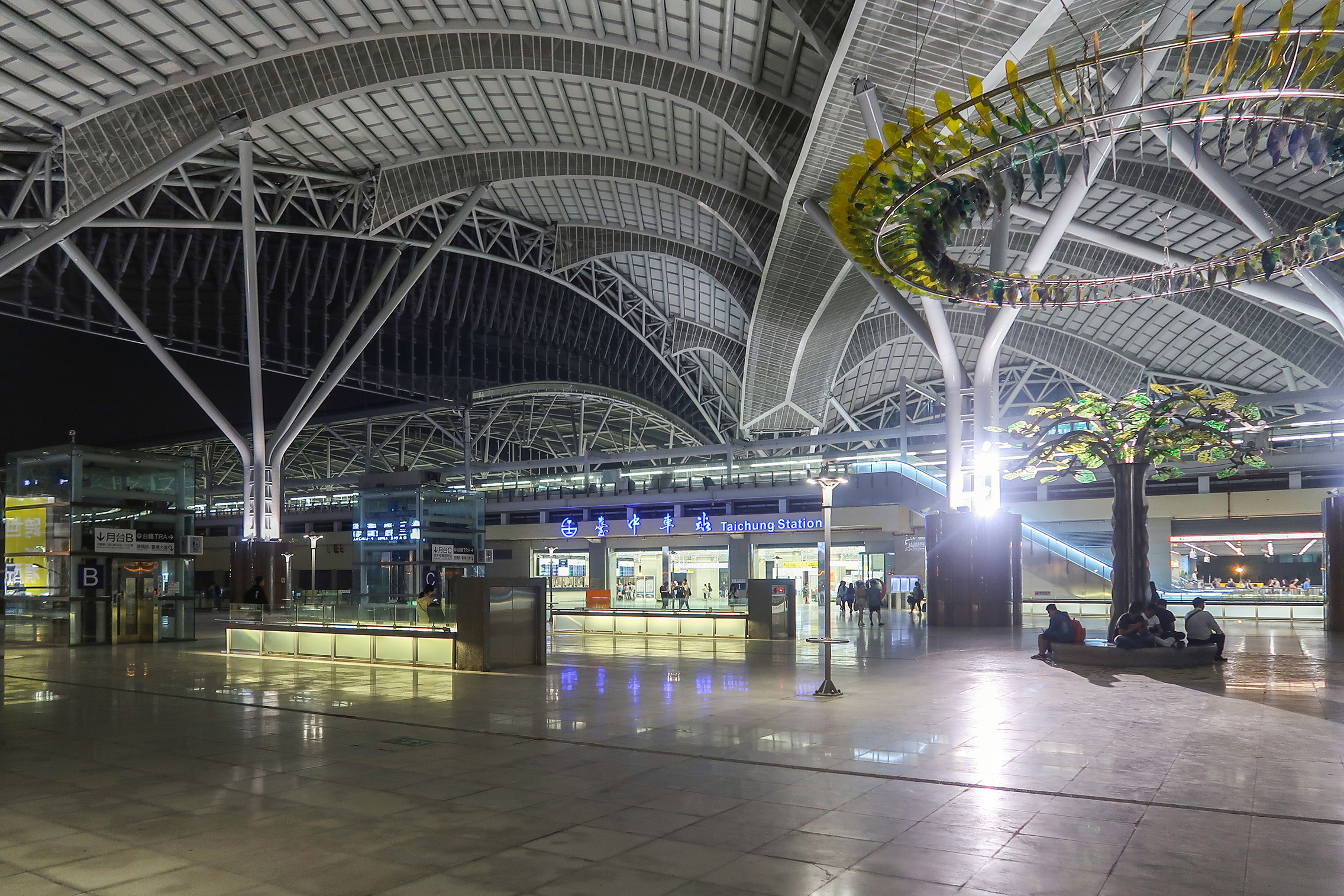 Taichung Station Observatory